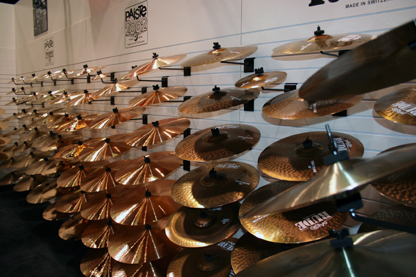 Paiste cymbals.